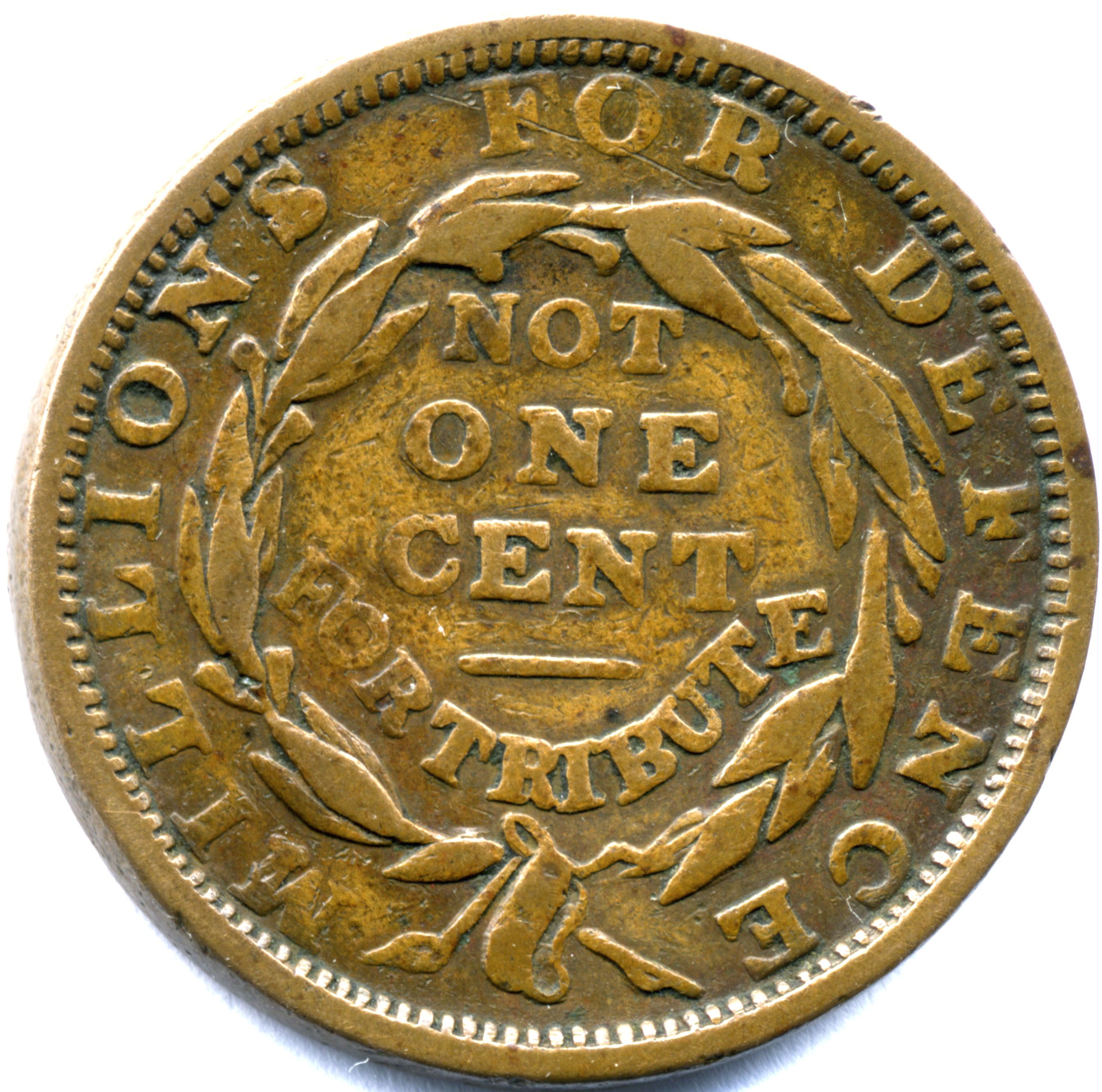 When U.S. cents were in short supply tokens were issued by third parties to take their place. These were widely accepted as though they were U.S. cents and thus kept commerce going during difficult economic times, thus they were called "hard times" tokens. Because some, such as this one, so closely resembled the then standard large U.S. cents the phrase "not once cent" was placed on the reverse to distinguish them. This phrase was combined with other wording on the reverse to make a political statement such as "millions for defence not one cent for tribute" or "millions for defence not one cent for the widows". Other tokens issued around the same time bore very little resemblance to U.S. Cents and so the phrase "not one cent" wasn't needed so they made other political statements or simply advertised products and services. Later, when the tokens were no longer needed or widely accepted some desperate individuals would sometimes file or chisel the "not" off the token so it would look more like a U.S. Cent and could be passed off as such. Such mutilated examples have less value for purists but they have added historical value as evidence of fraud committed many years ago by a person who is long since dead.